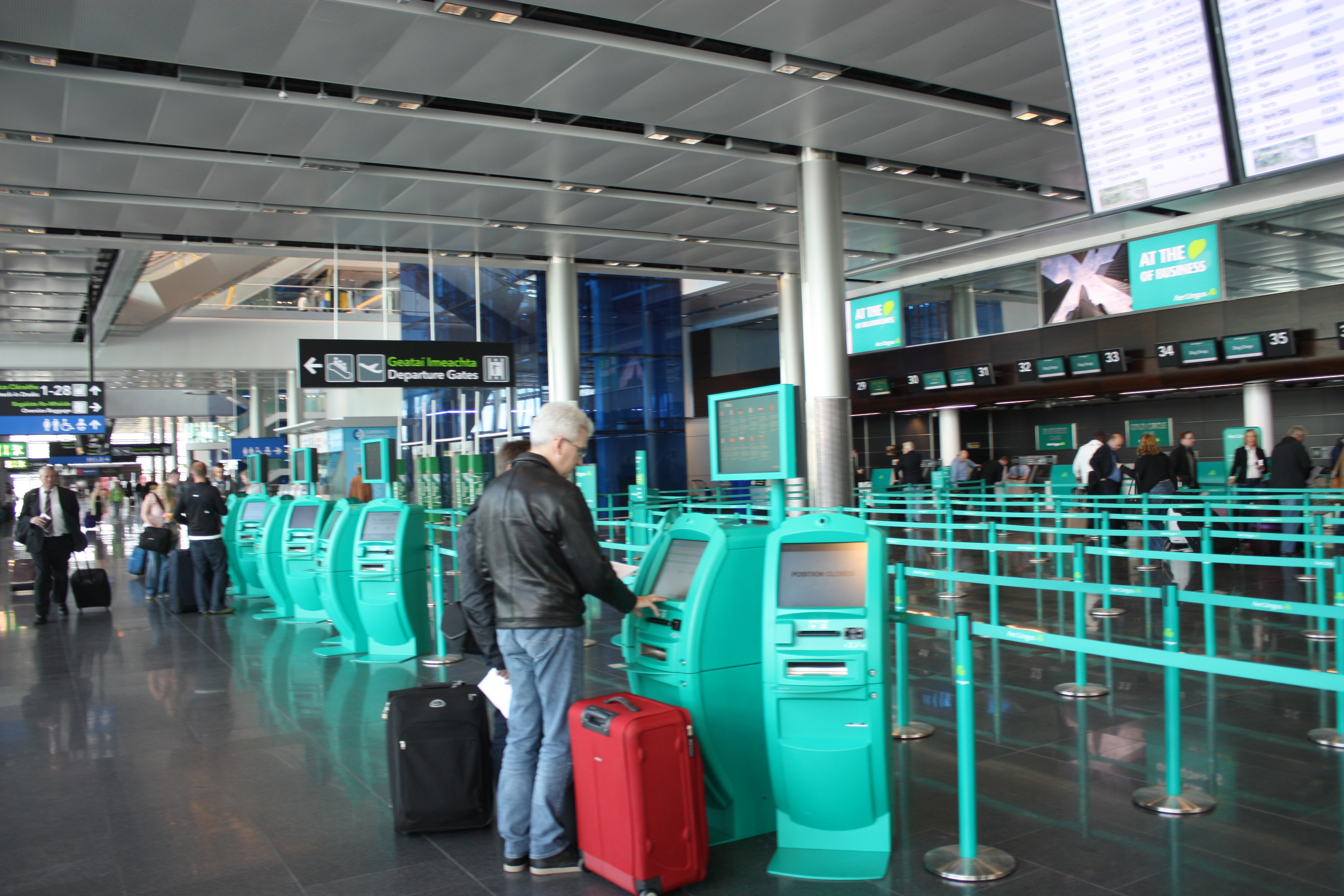 Terminal 2, Dublin Airport, Dublin, Ireland, May 2011